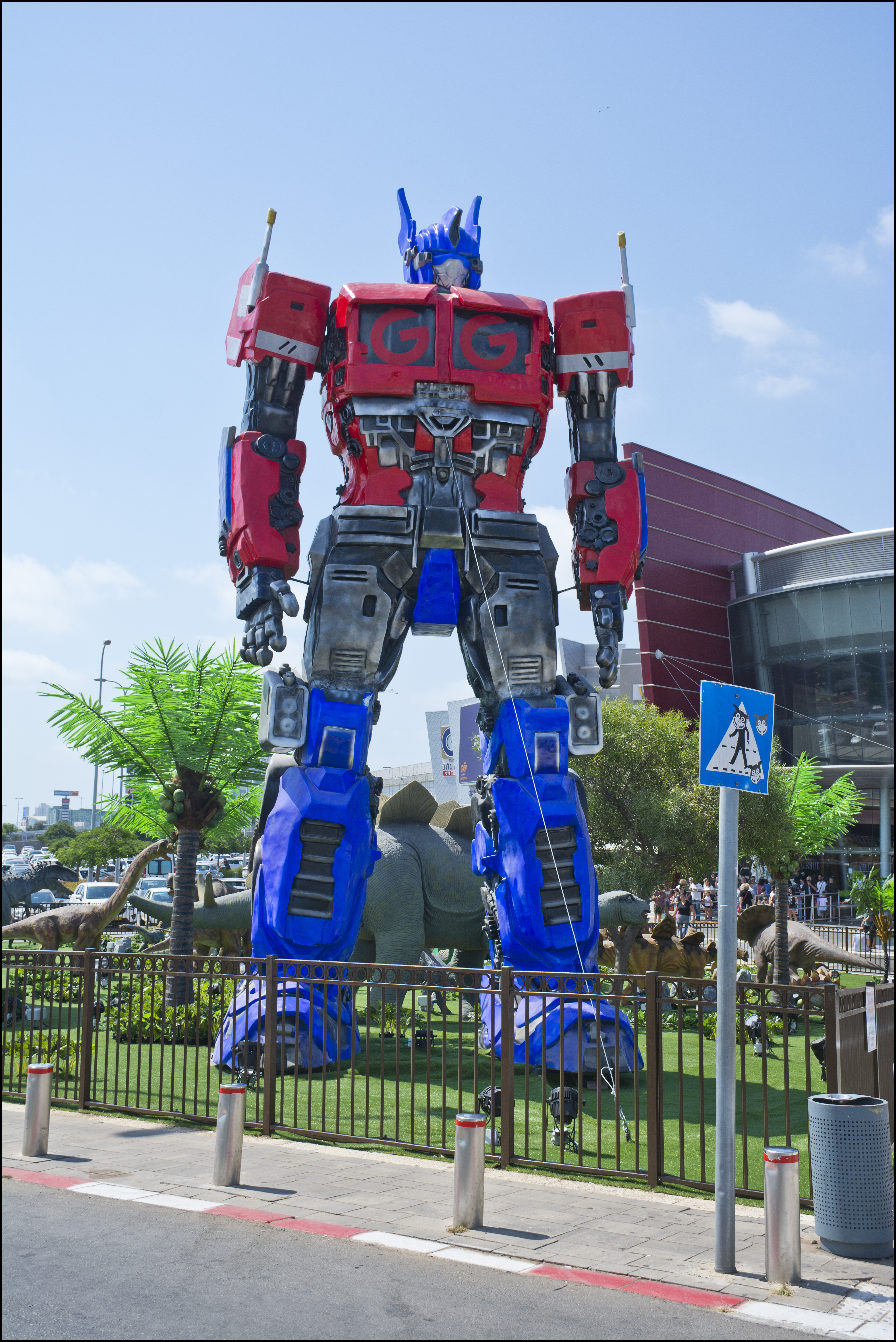 Cinema City's Dinosaur Park, Rishon LeZion, Israel 2019